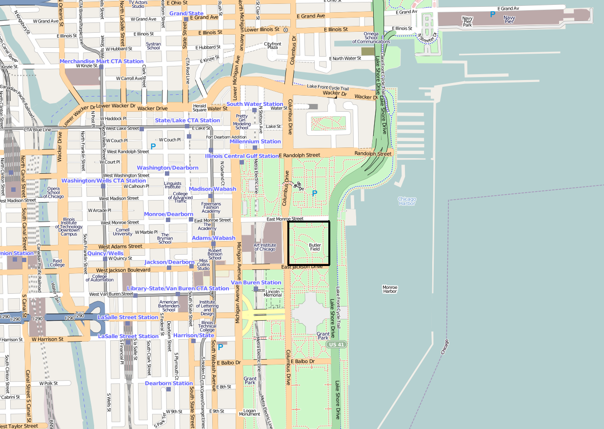 Petrillo Music Shell This map may be incomplete, and may contain errors. Don't rely solely on it for navigation.